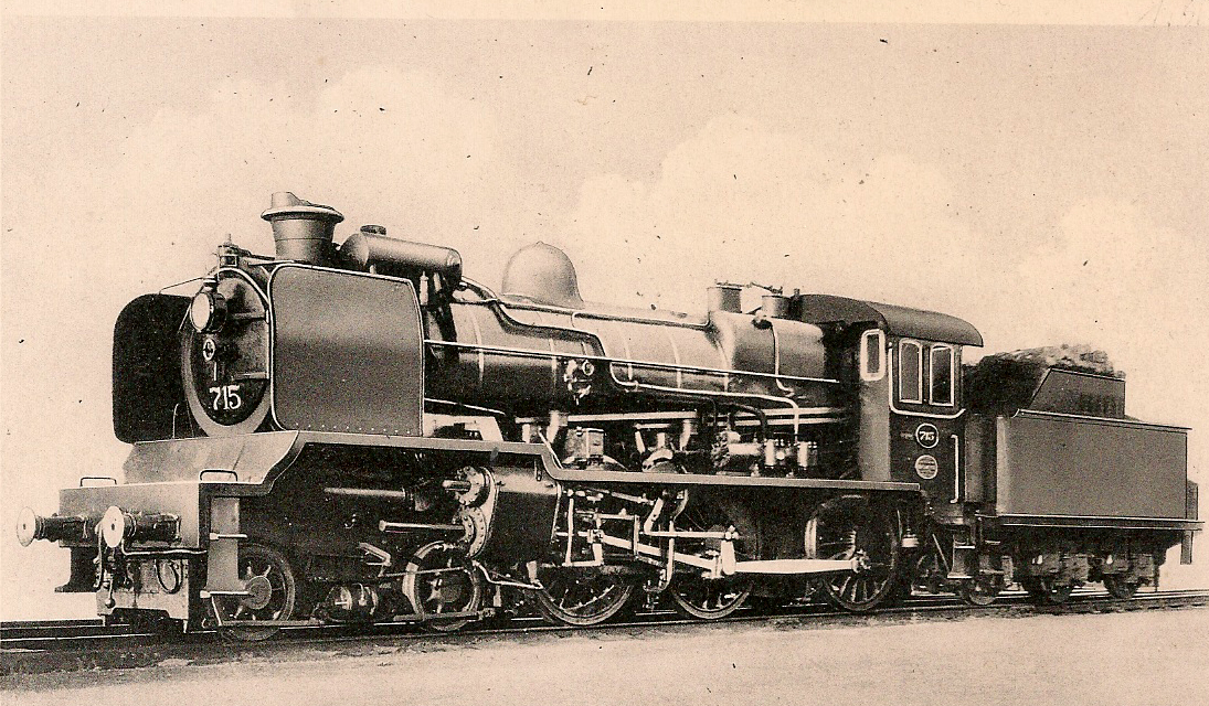 NMBS / SNCB Type 7 Steam Locomotive